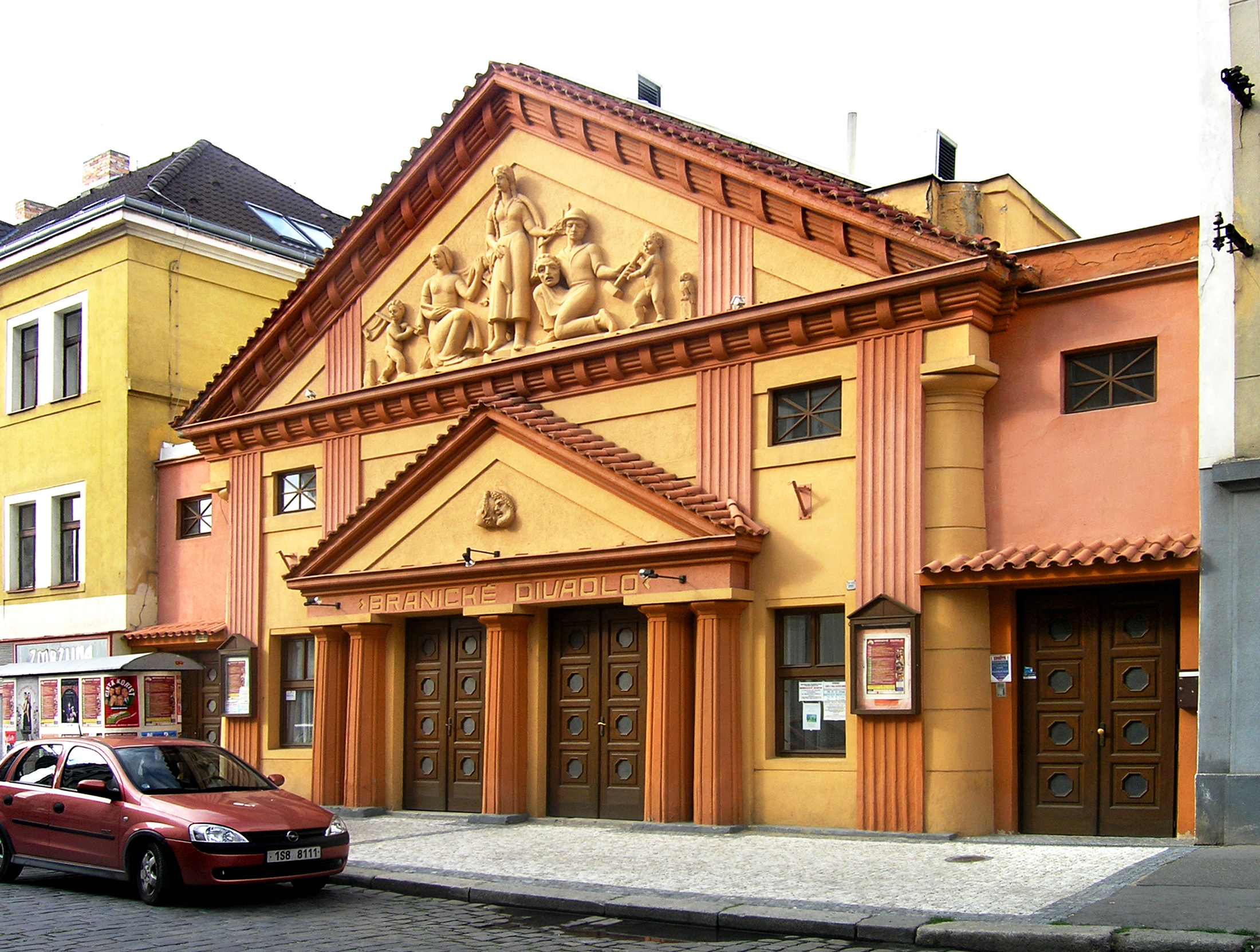 Branické theatre at Braník, Prague